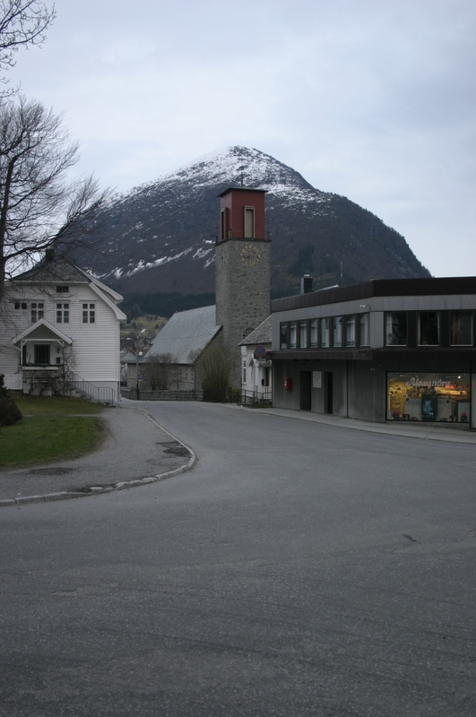 The centre of Volda, with the mountain Rotsethornet (652 m) in the background